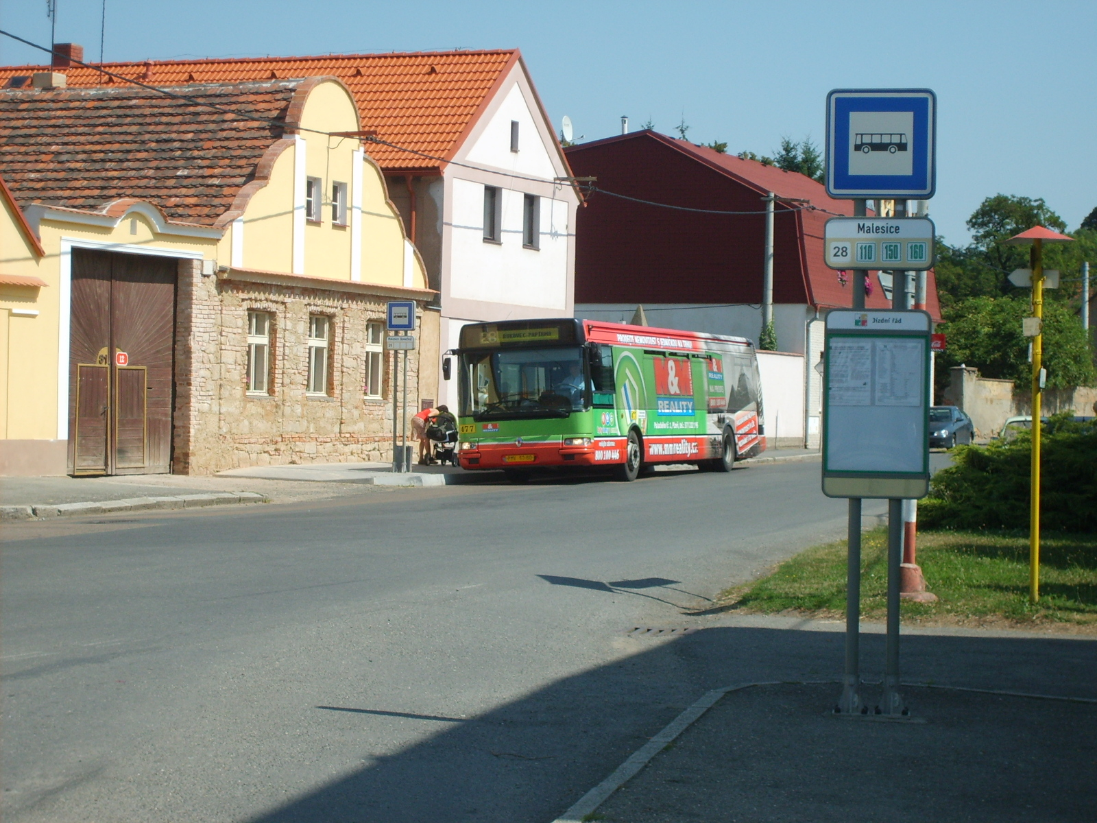 Bus 28 terminus in Malesice, Pilsen 9.